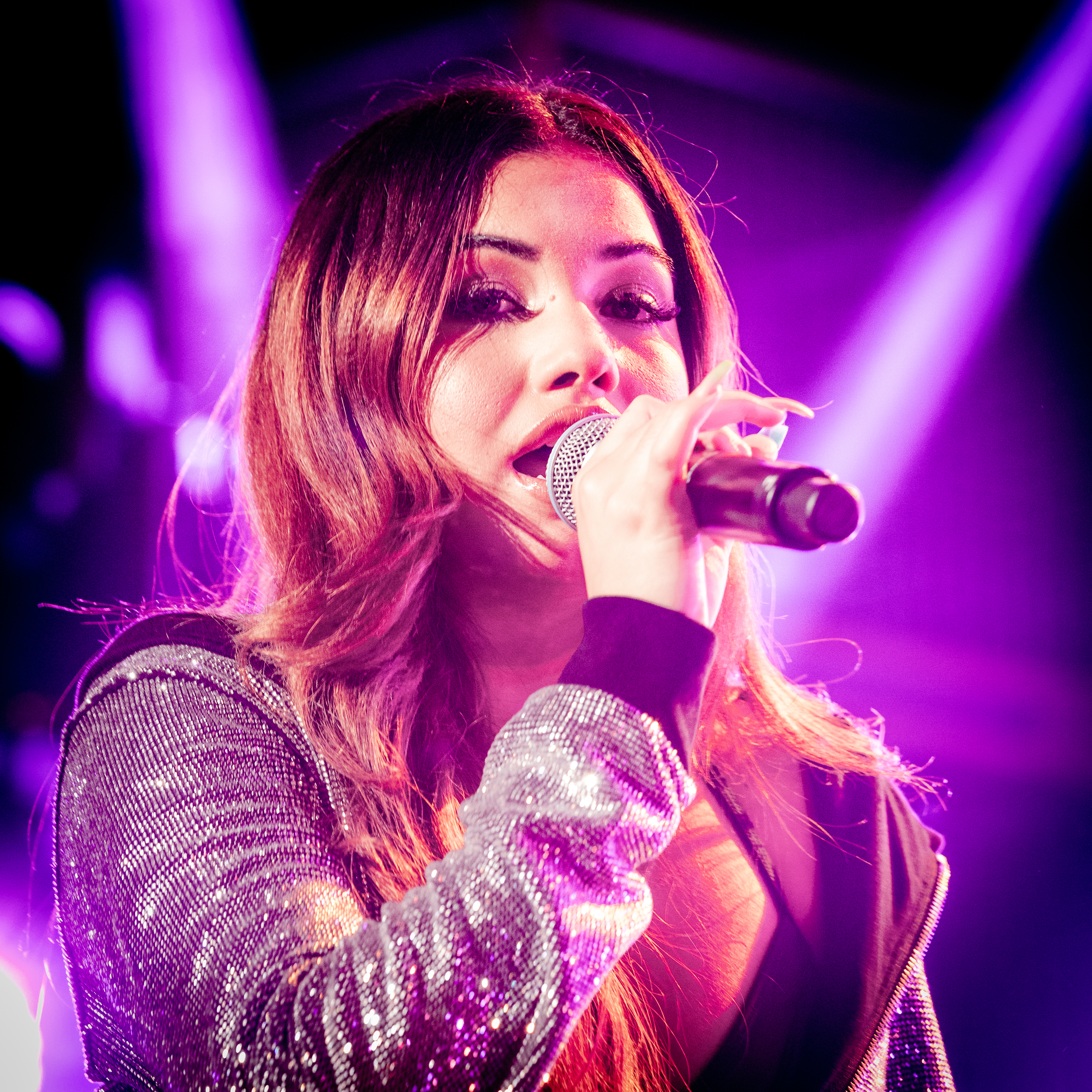 British-Swedish singer Mabel at the SWR3 New Pop Festival 2018